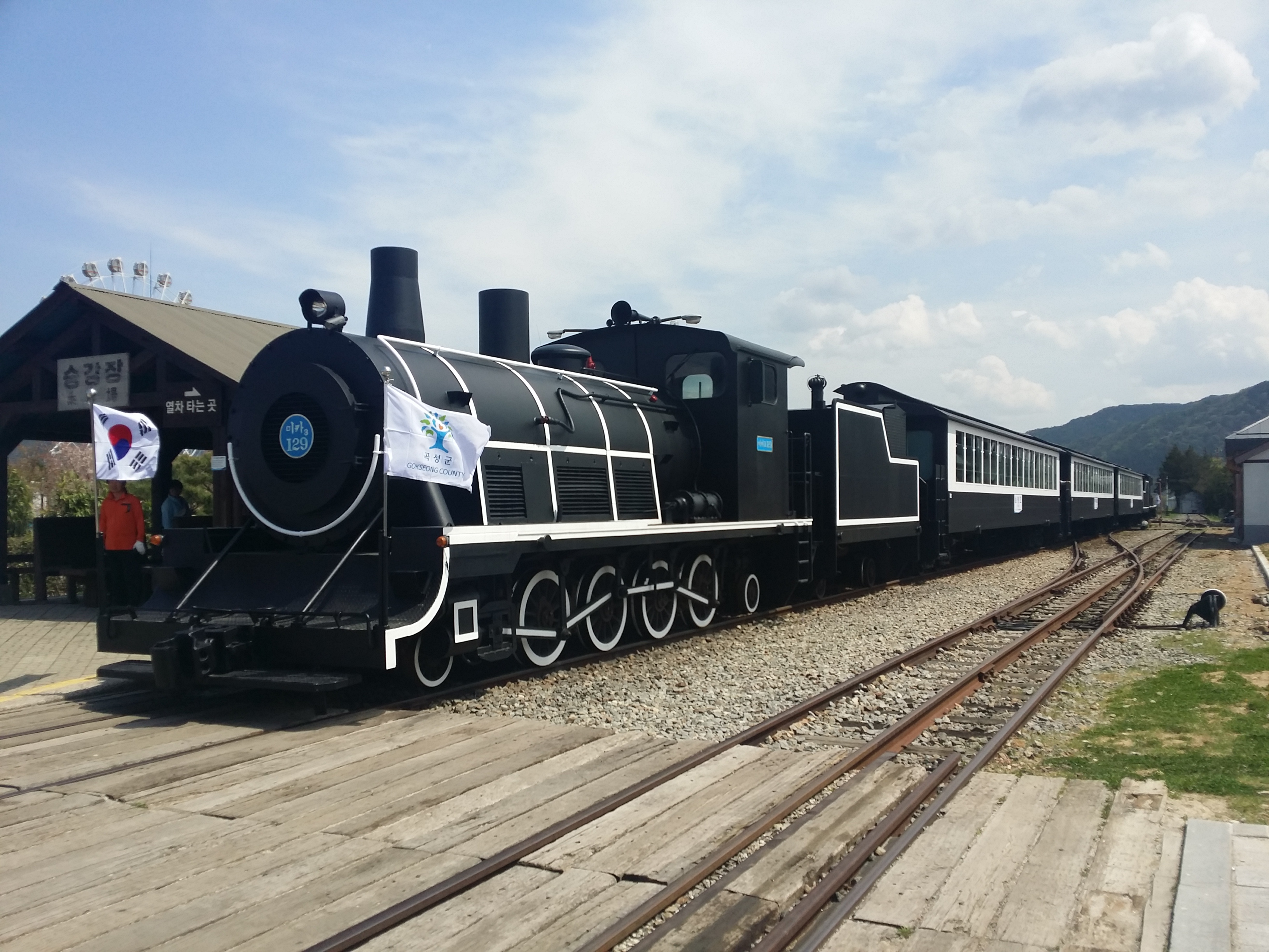 Steam locomotive at old Gokseong station